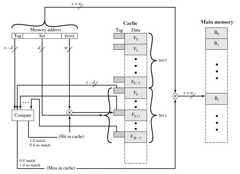 Set associative mapping